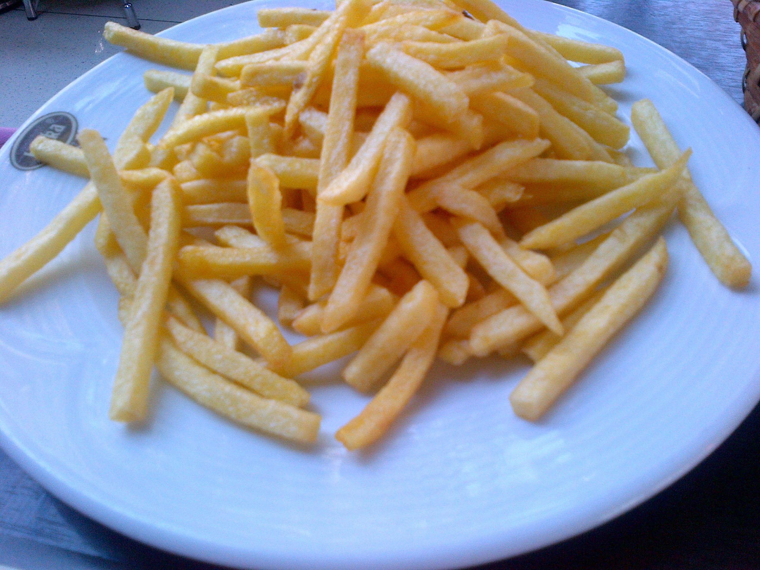 French fries in Ankara, Turkey.